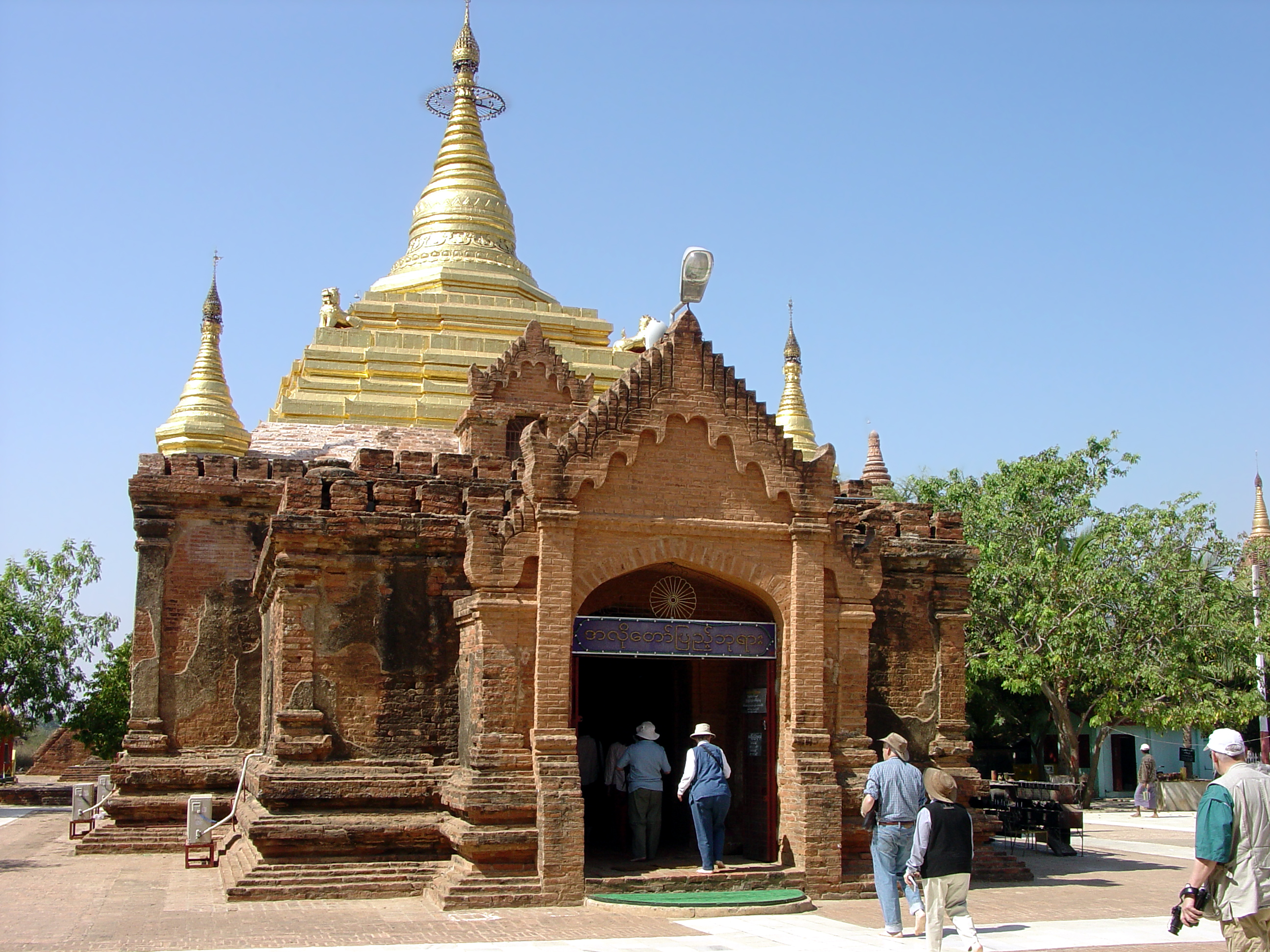 The temple follows a Pyu-type design, in which the superstructure is topped by a stupa-shaped finial. Its entrance is at the east, with windows (not seen in this photograph) on the north and south sides. Its upper level is accessible by a stairway but, unlike later temples, there is no upper-level shrine.